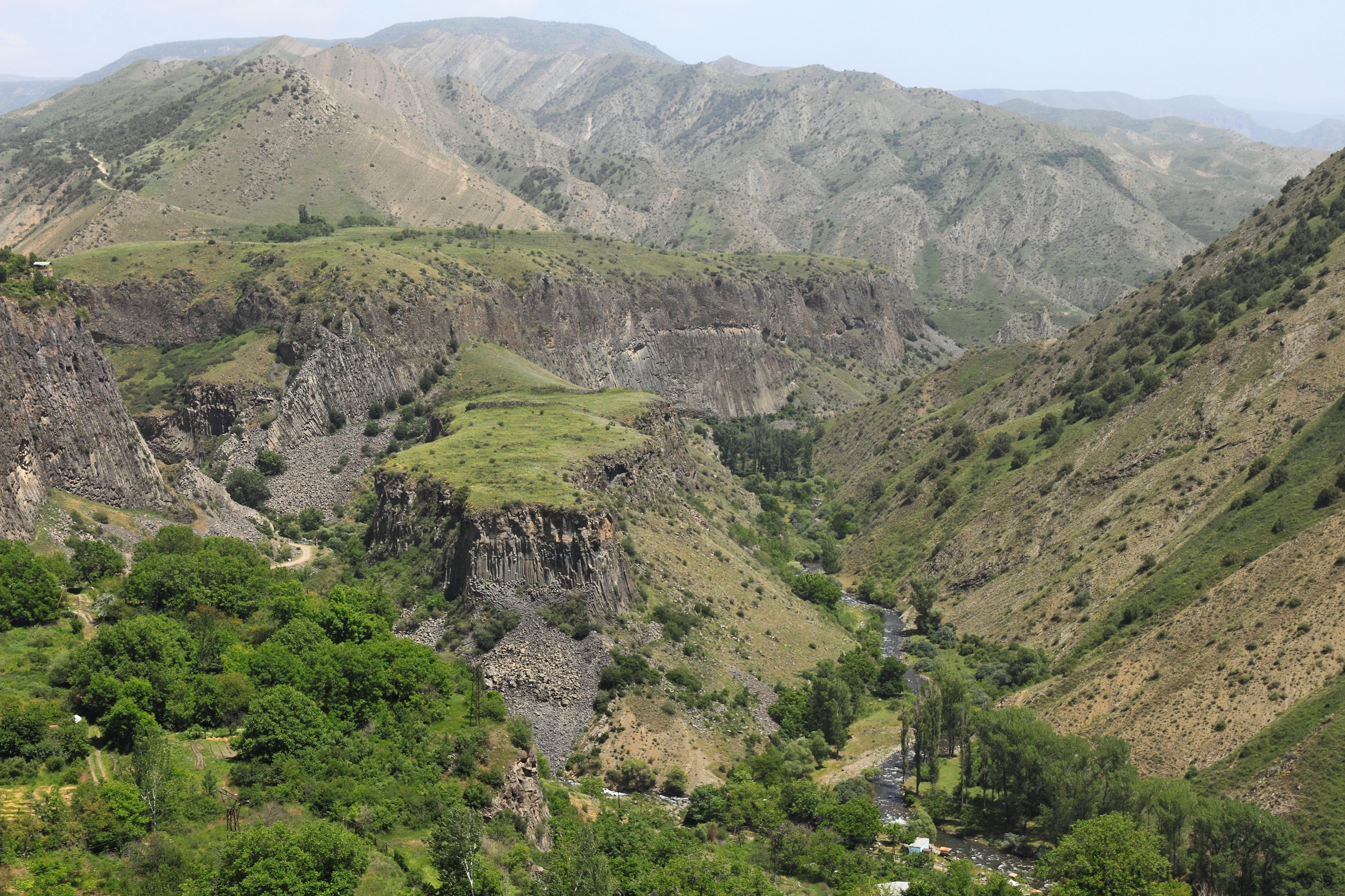 Garni Gorge, Khosrov State Reserve. Garni, Kotayk Province, Armenia.